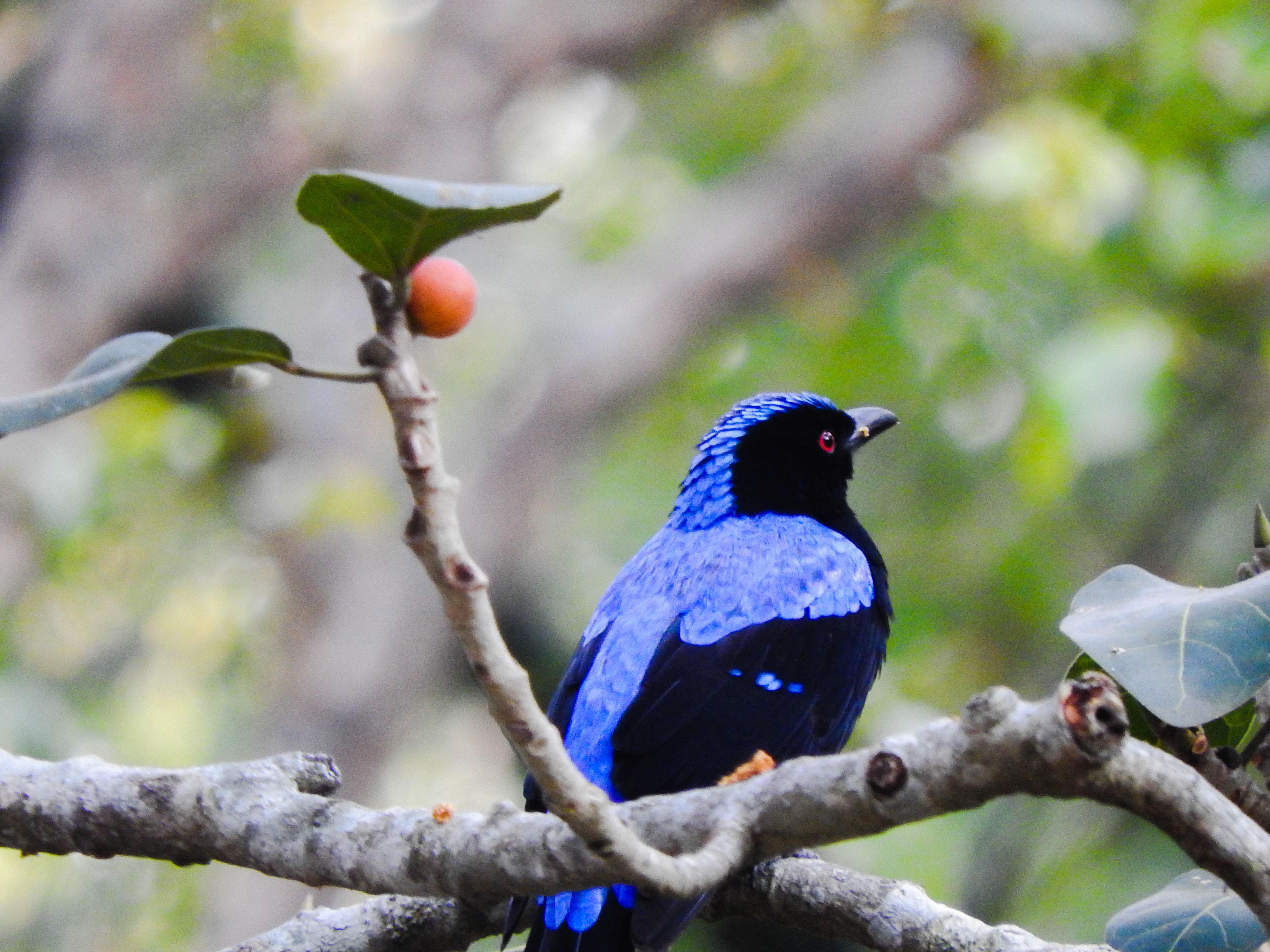 Asian fairy blue bird, taken in Dhimbam ghat road, Tamil Nadu, near Karnataka border.